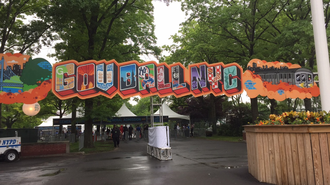 Entryway sign from 2016 Governor's Ball Music Festival on Randall's Island, New York, New York